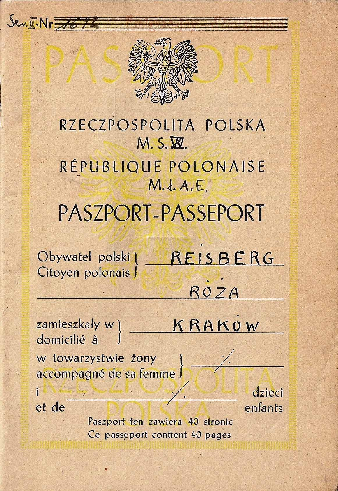 First post-war Polish passport, the design used in the 2nd half of 1945.